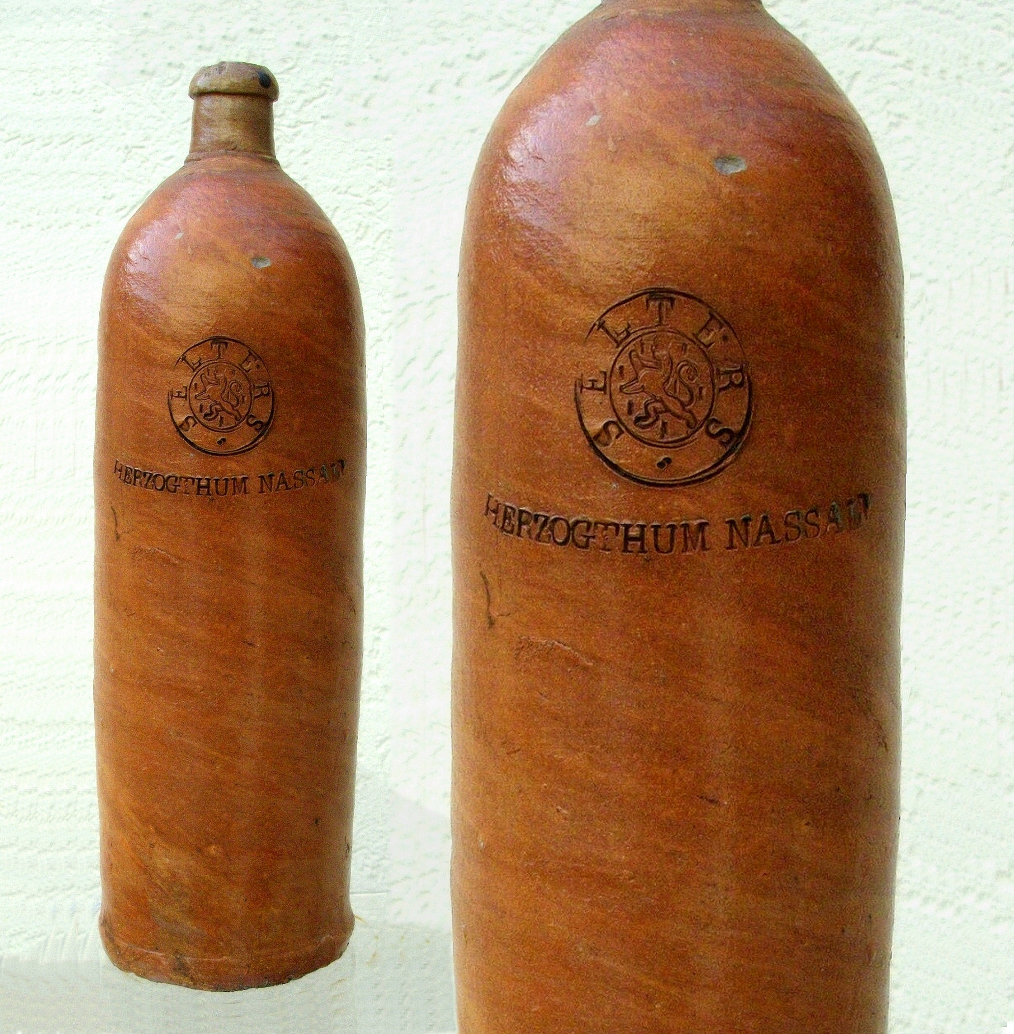 Selters Stoneware mineral water bottle (19th century)